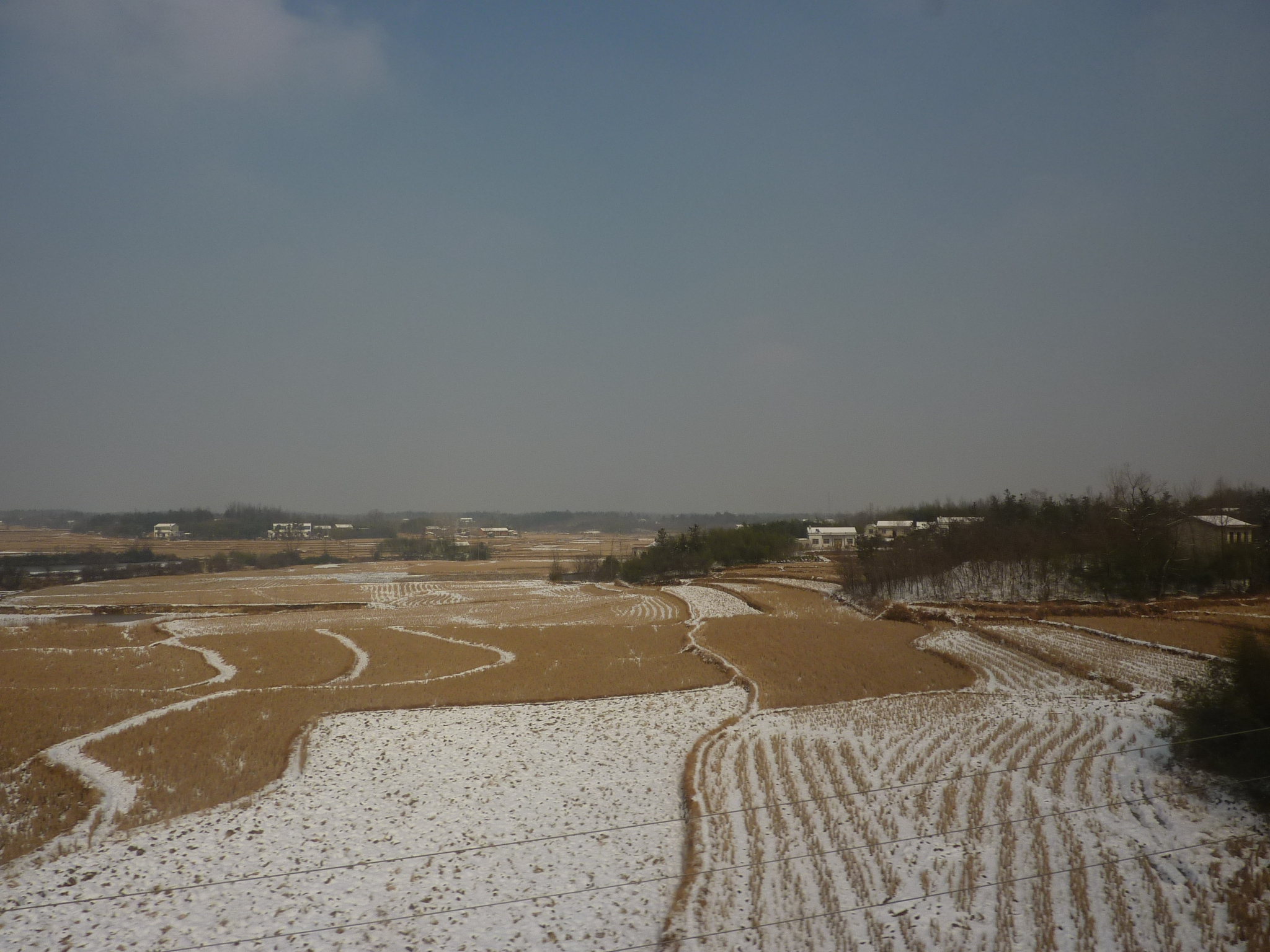 Farmers' fields, partly covered by snow, on the flatland (east of the Dabie Mountains) between Jinzhai County seat and Lu'an City center, in Anhui Priovince. This may be within Jinzhai County or one of the centrak qu (districts) of Lu'an. Seen form a train running on the Hewu (Henan-Wuhan) Railway.